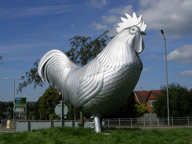 Dorking Cockerel Since February 2007 this 10-foot tall chicken statue has towered above the A24/A25 roundabout.